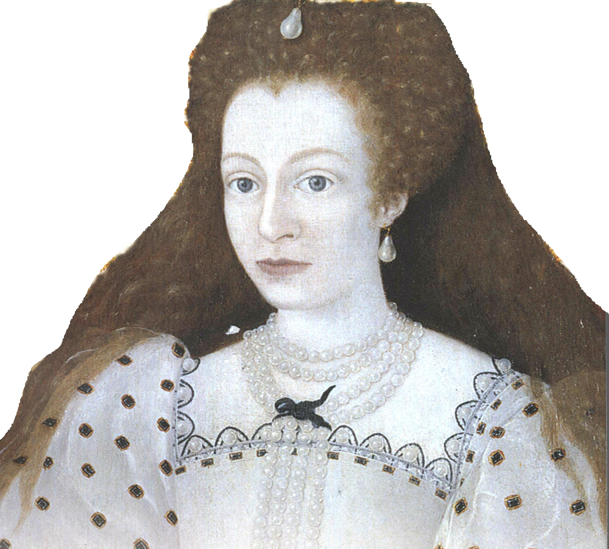 Arbella Stuart at the age of 13. Detail from the Hardwick Hall Portrait.